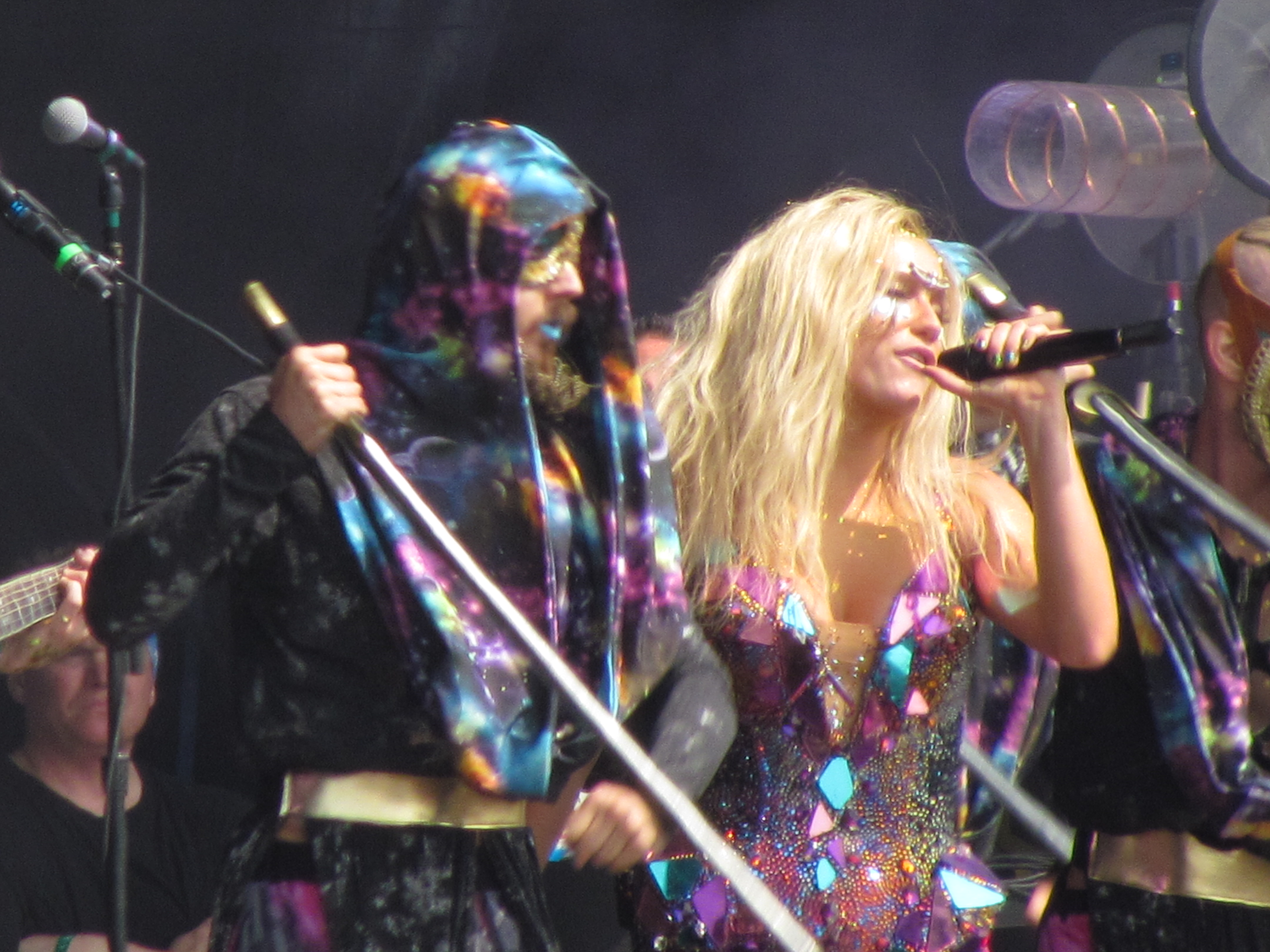 Kesha at Wireless Festival 2013